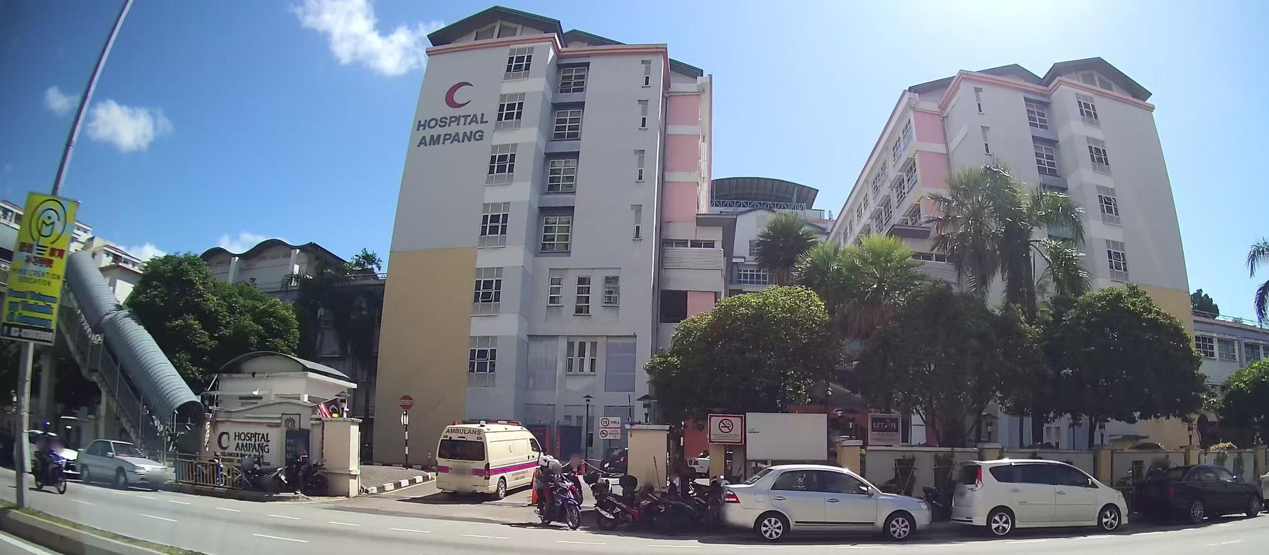 Hospital Ampang